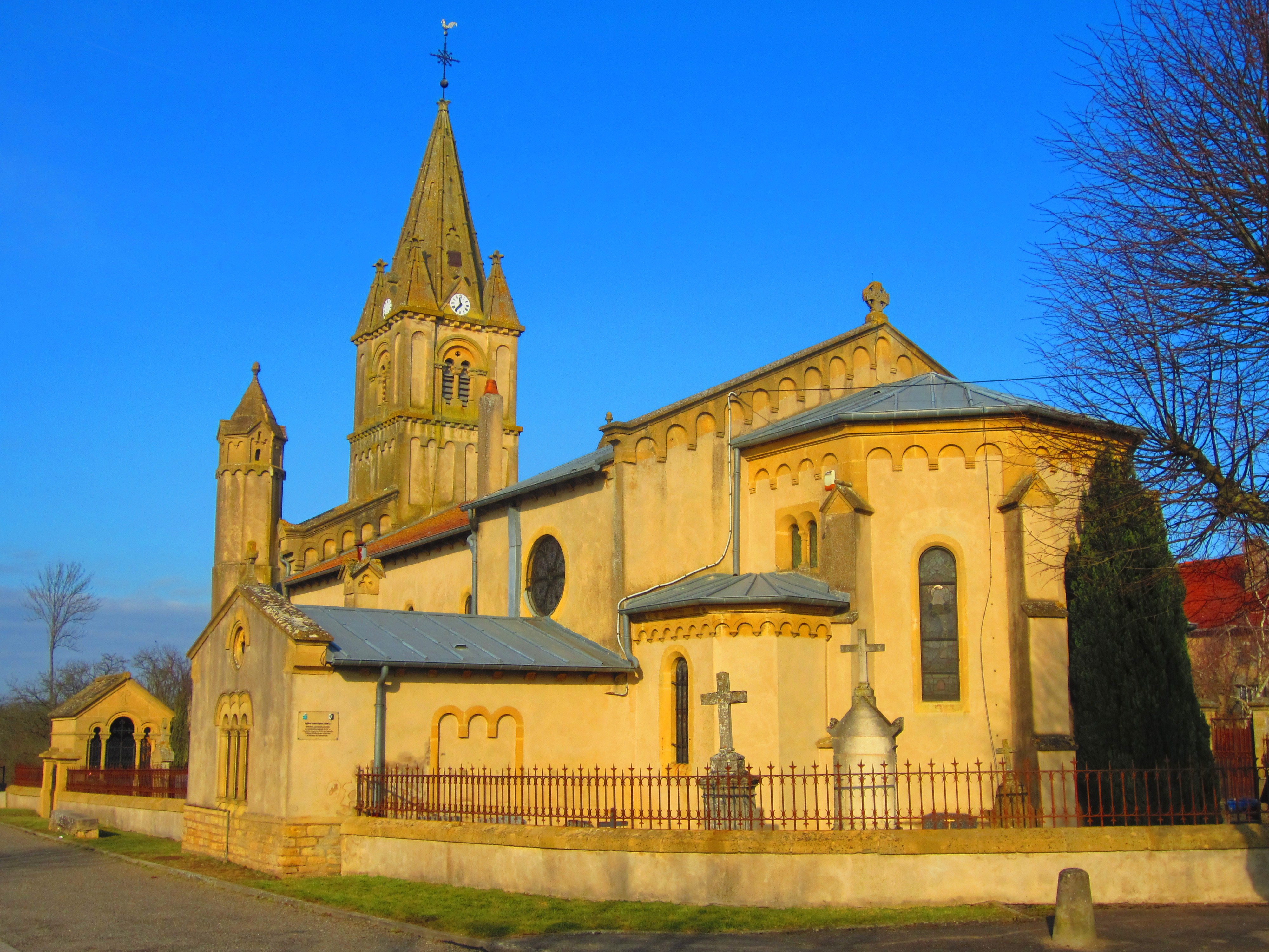 St Agnan Ogy church